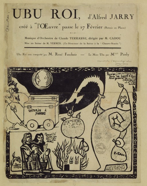 Poster for a performance of "Ubu Roi"